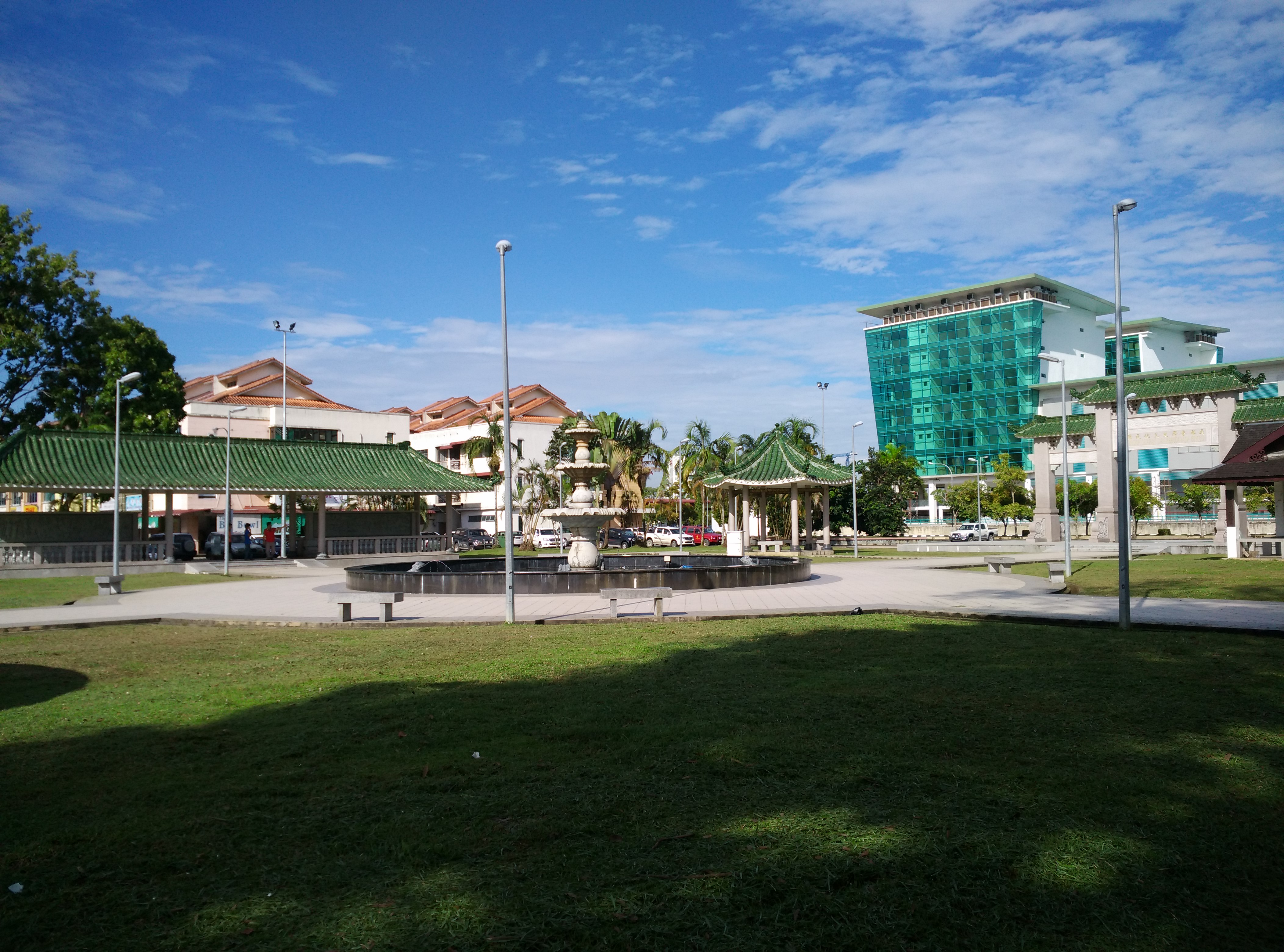 Bintulu Development Corridor